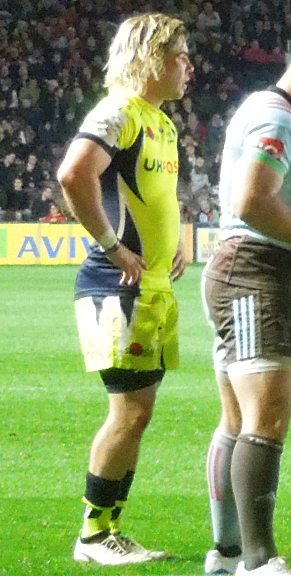 Faf de Klerk playing as Scrum Half for Sale Sharks